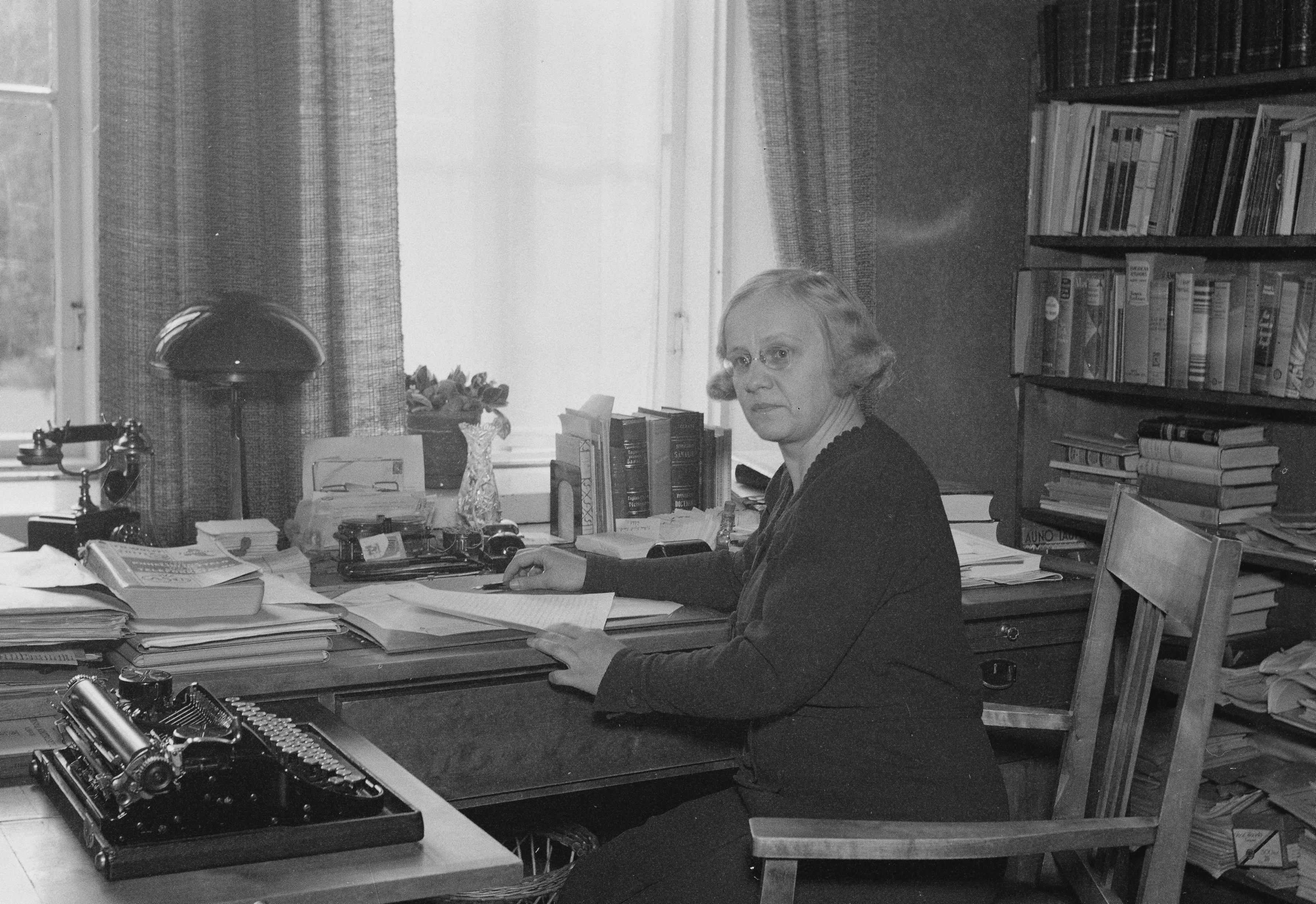 Photograph of the Finnish librarian Helle Kannila (1896–1972) at her workplace, Valtion kirjastotoimisto, Ratakatu 2, Helsinki.